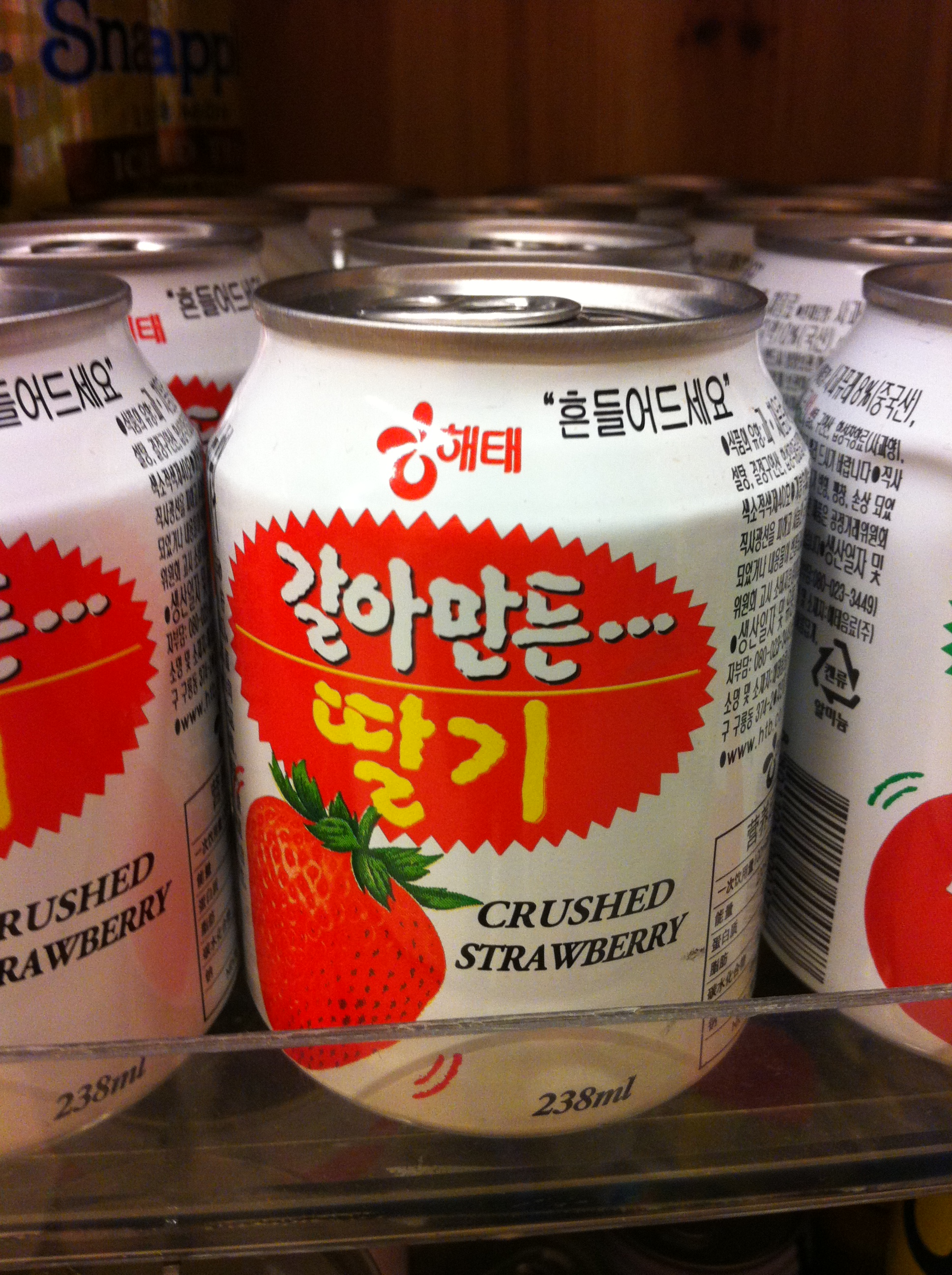 Crushed strawberry Korean can